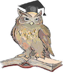 An owl on an open book with a hat